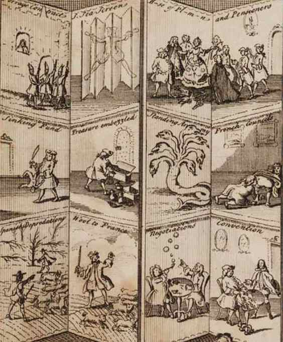 Walpole's reign - a satire 1